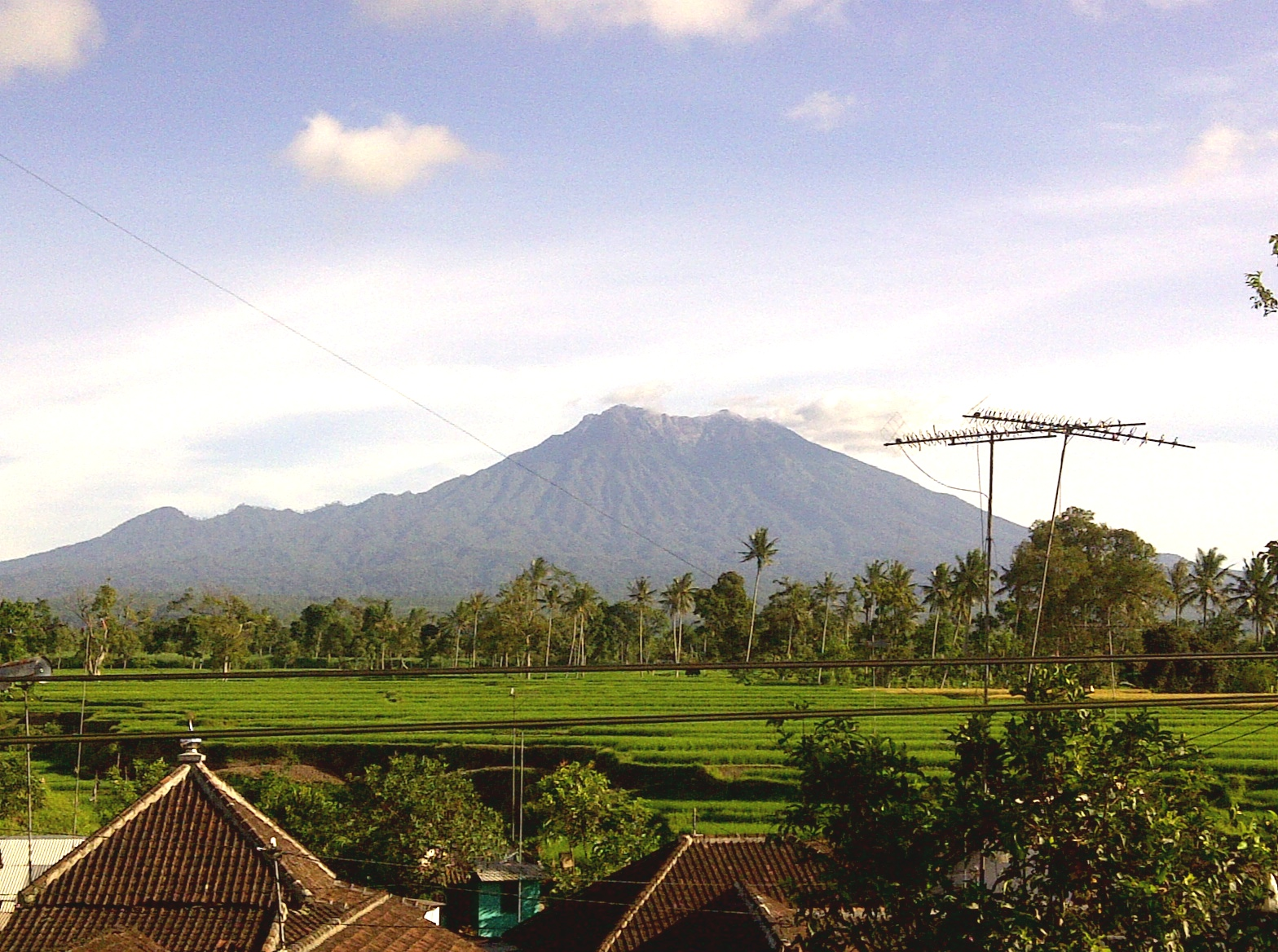 The view of Mount Raung from Kalibaru Town, East Java, Indonesia